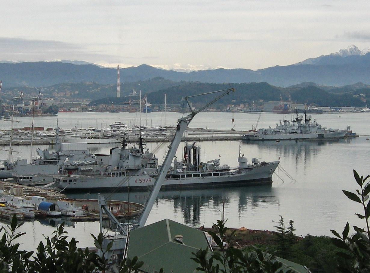 Italian supply ship Vesuvio A 5329, La Spezia, Italy